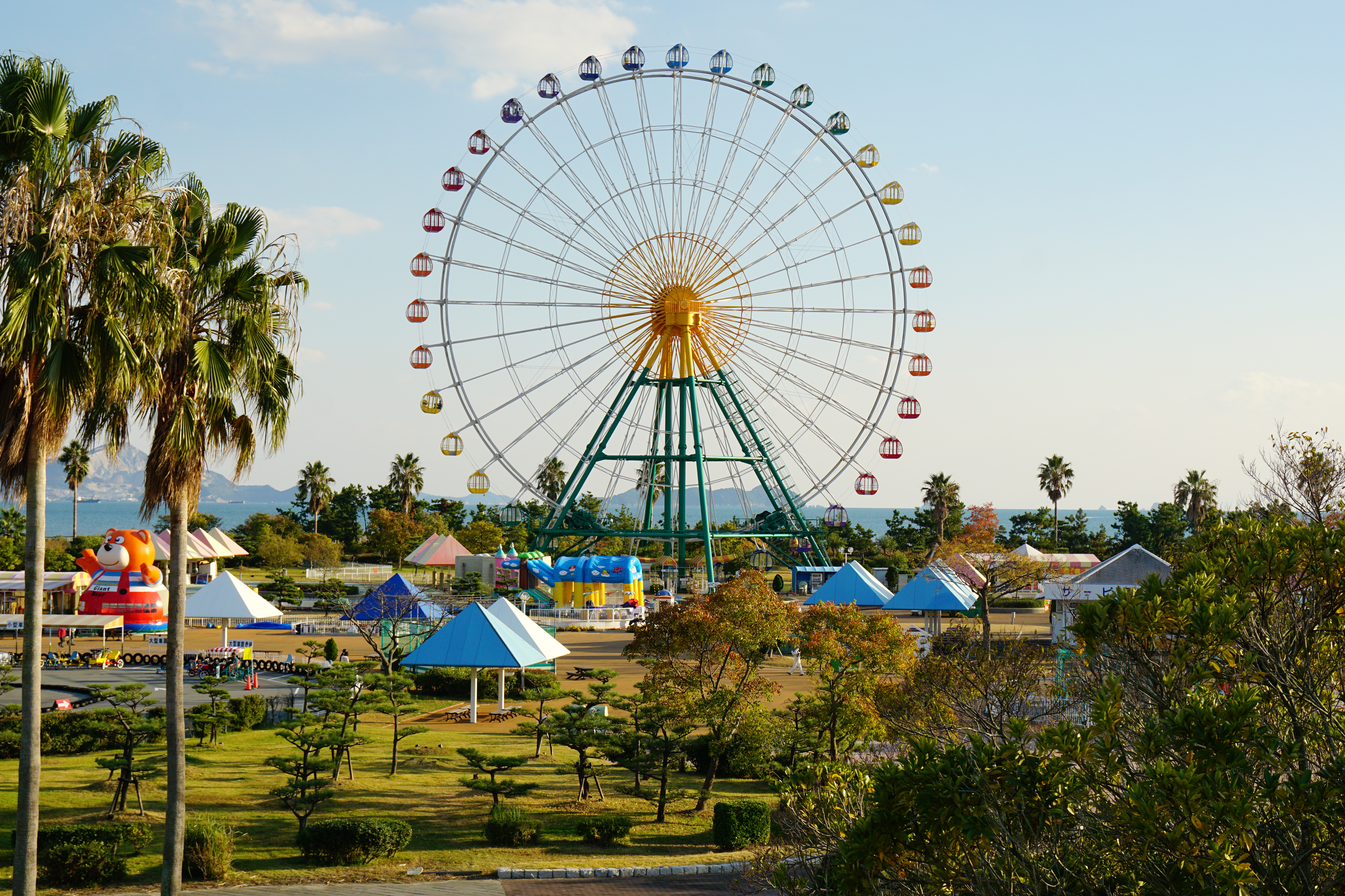 Hyogo prefectural Ako Seaside Park in Ako, Hyogo prefecture, Japan.